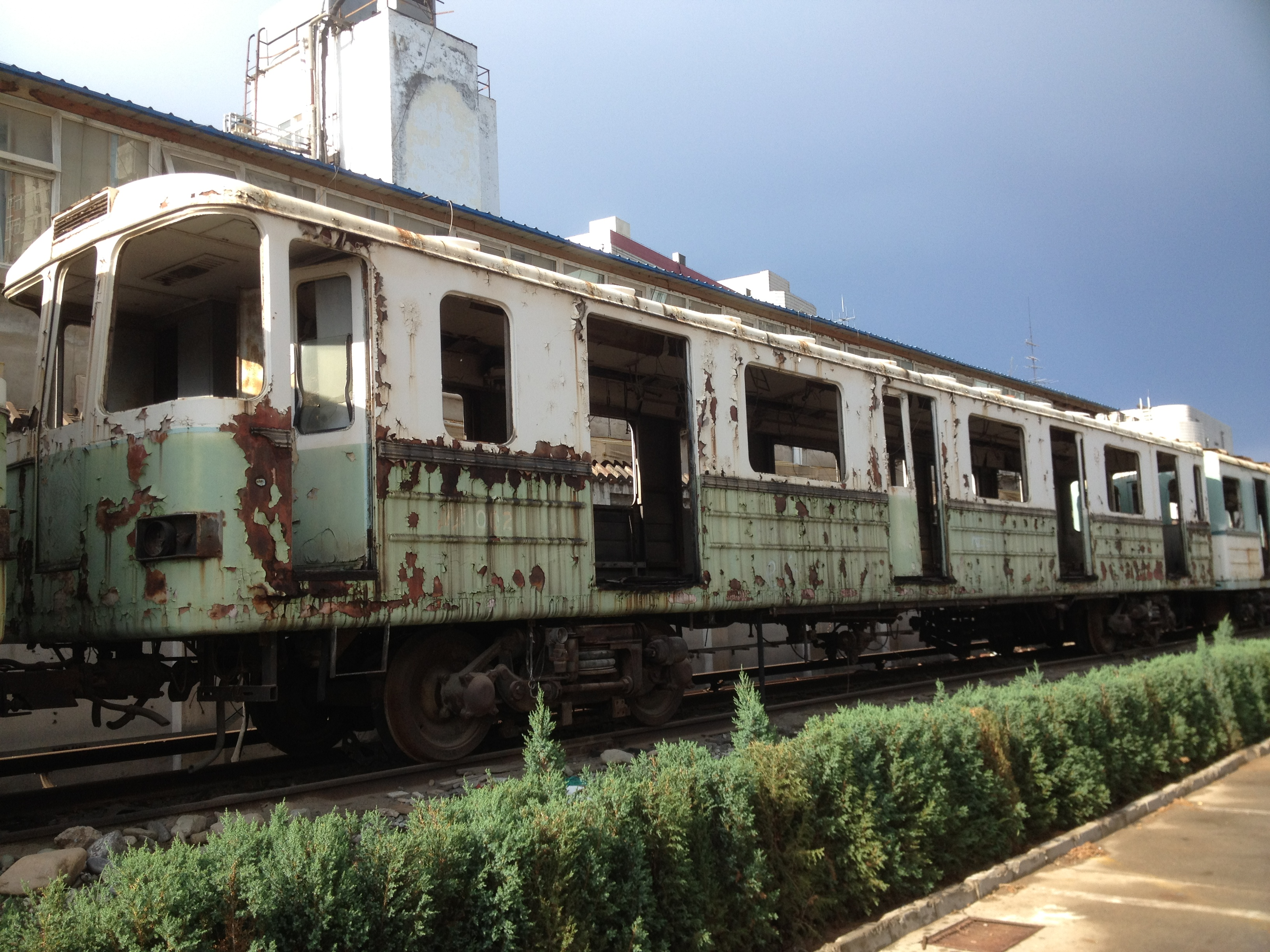 DK1(北京002)in Gucheng depot.